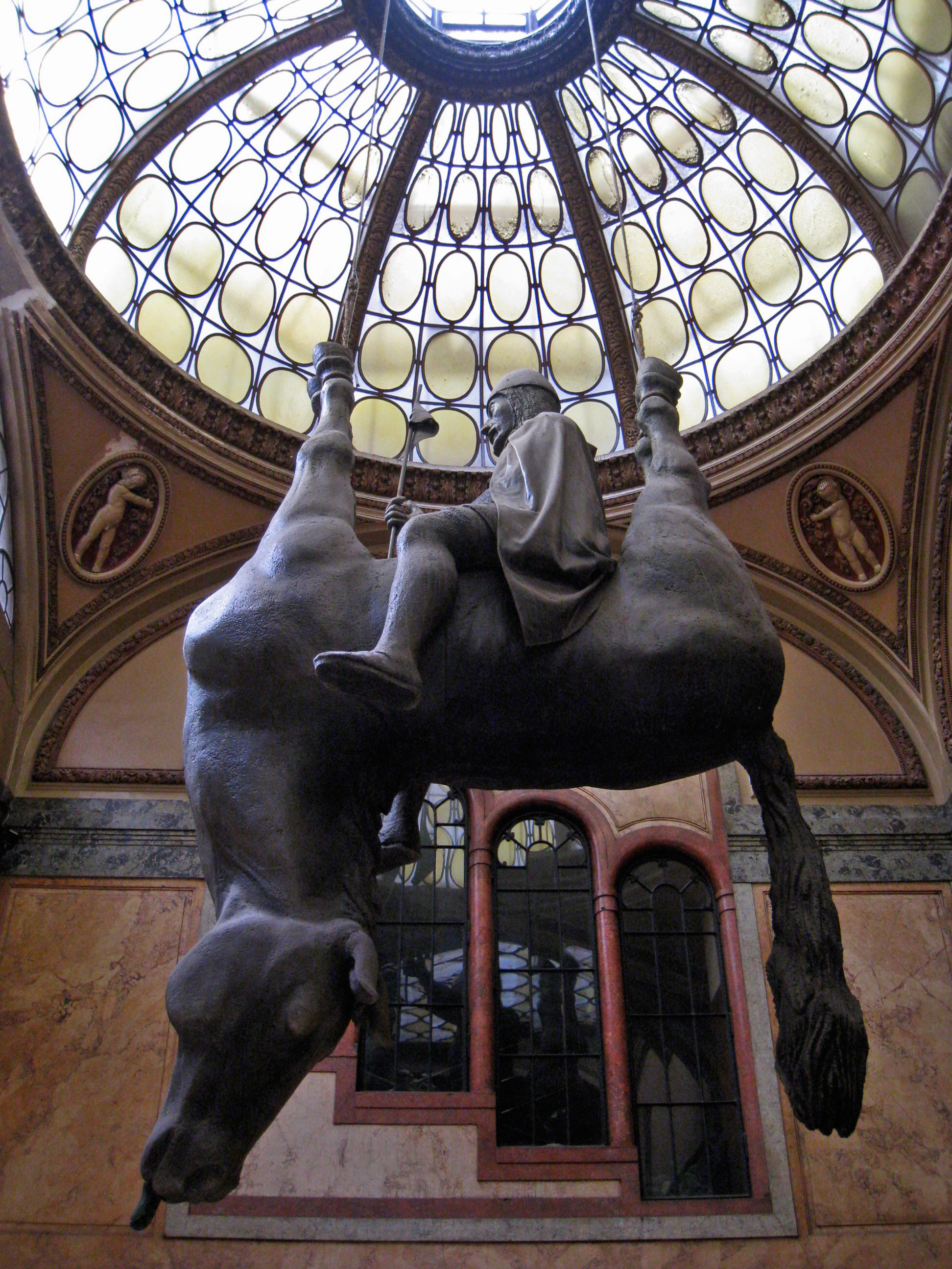 Statue of St. Wenceslas riding a dead horse by Czech sculptor David Černý.